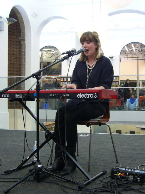 Latvian-Canadian musician Katie Stelmanis performing in 2009